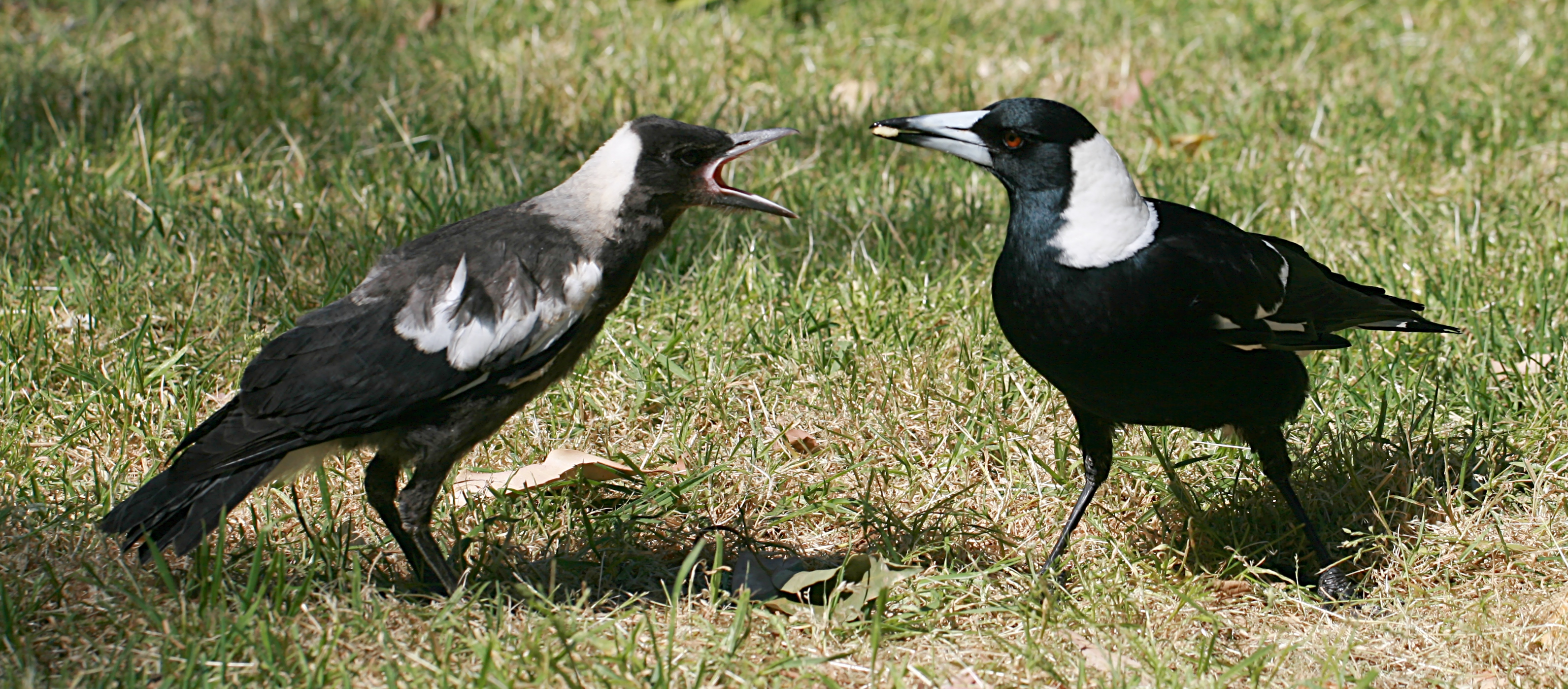 Two Australian Magpies (Cracticus tibicen) in Victoria Park, Sydney, in New South Wales, Australia. On the left is a juvenile (note the dark eyes) calling for food. The mother/father on the right has just obtained a piece of apple and is about to pass it over.